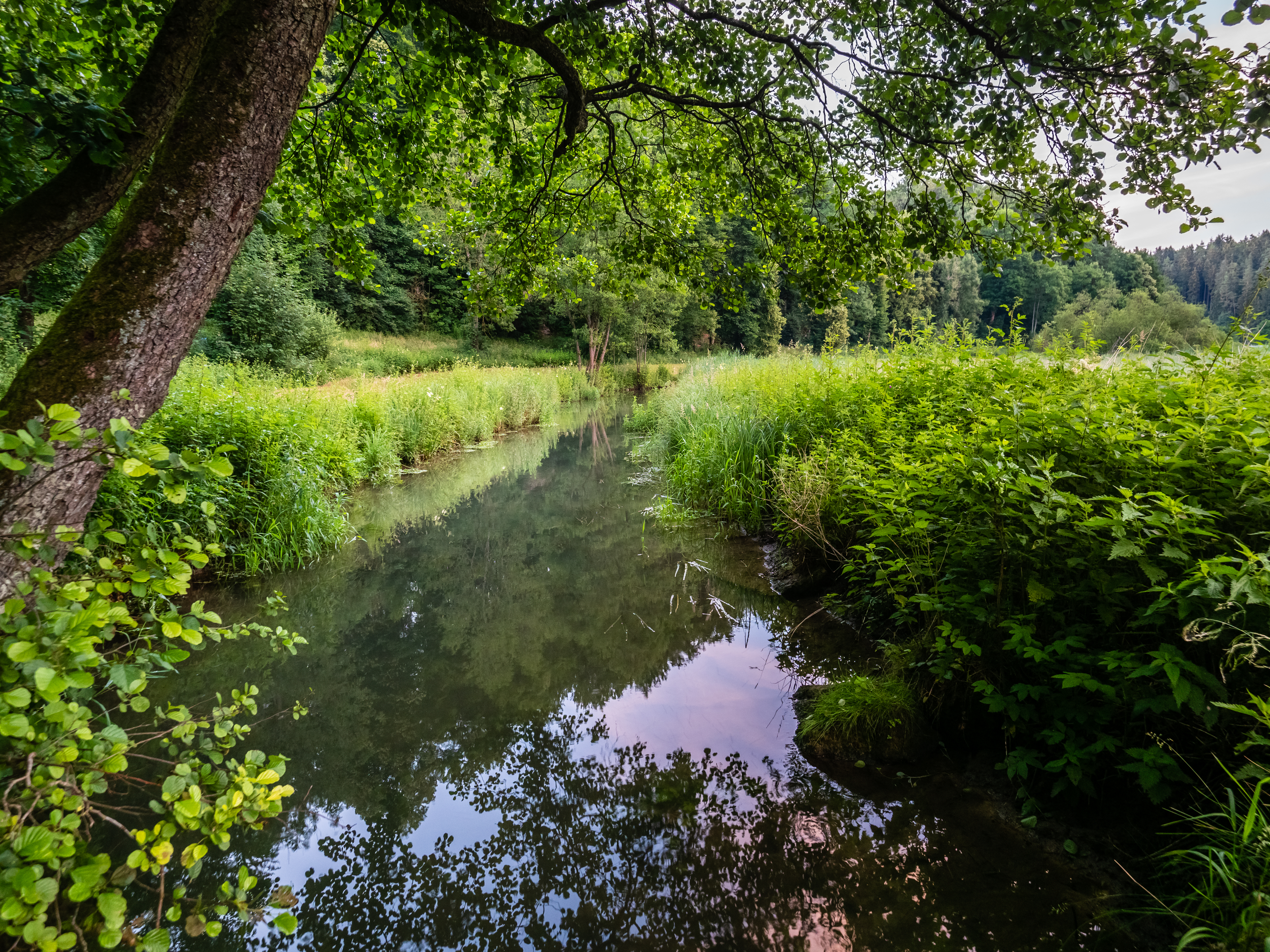 Aufseßtal near Aufseß